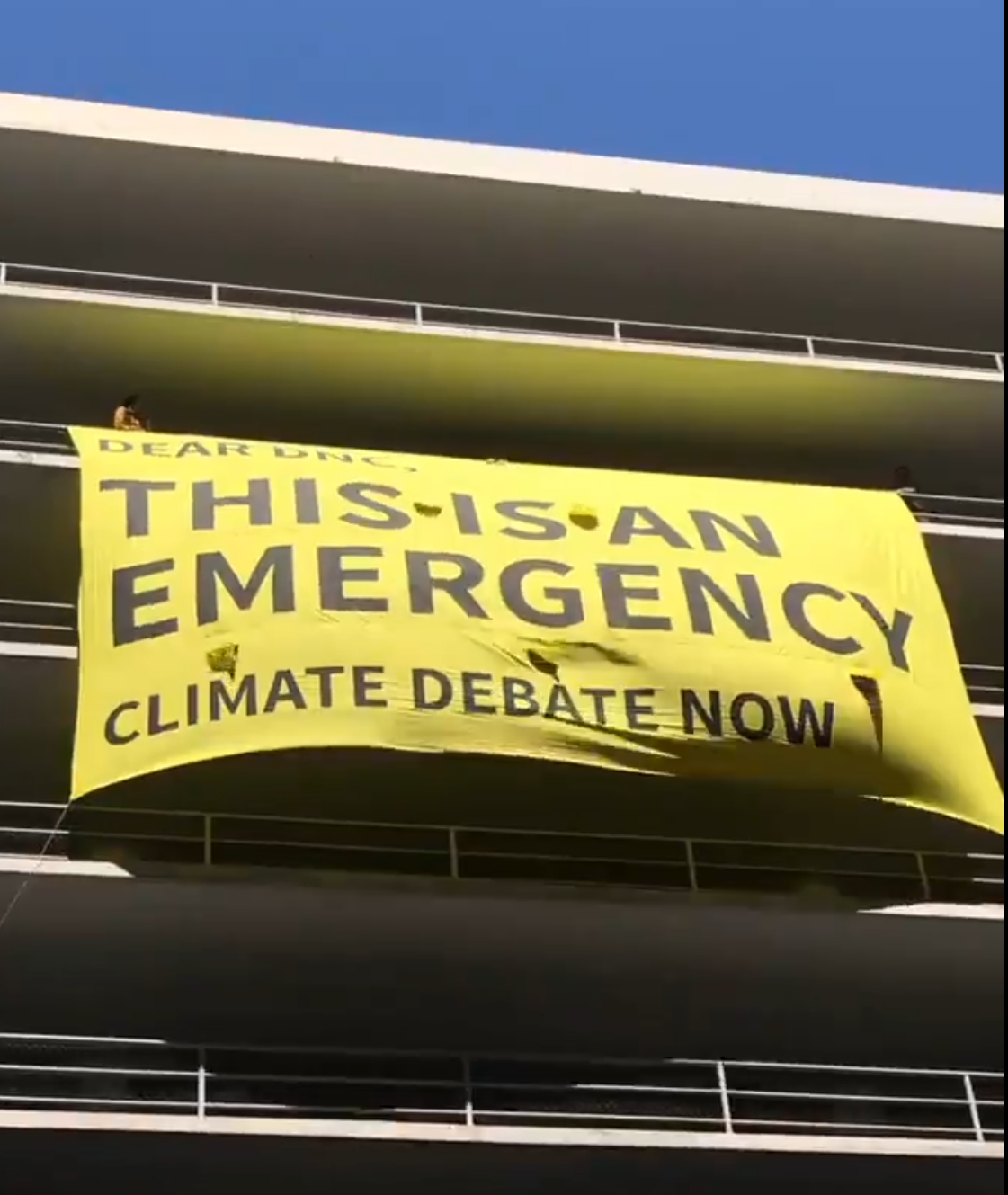 This Banner was dropped from a parking garage across the street from where the DNC was meeting to vote on the climate change debate. It reads "Dear DNC, This is an emergency. Climate debate now."